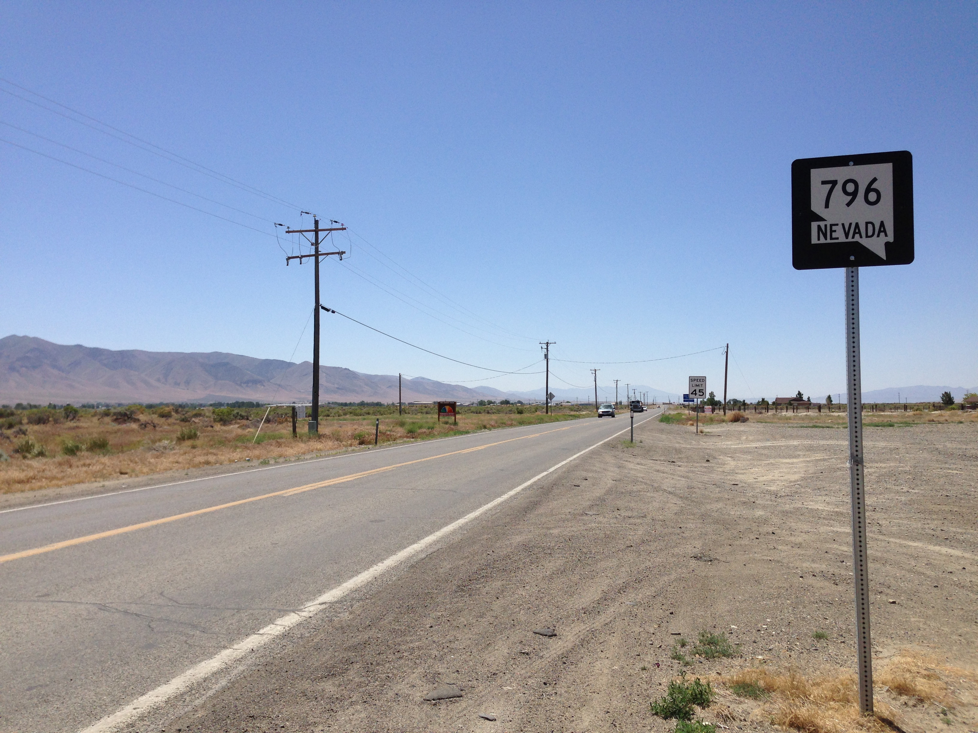 First reassurance sign along southbound Nevada State Route 796 (Airport Road) in Winnemucca, Nevada